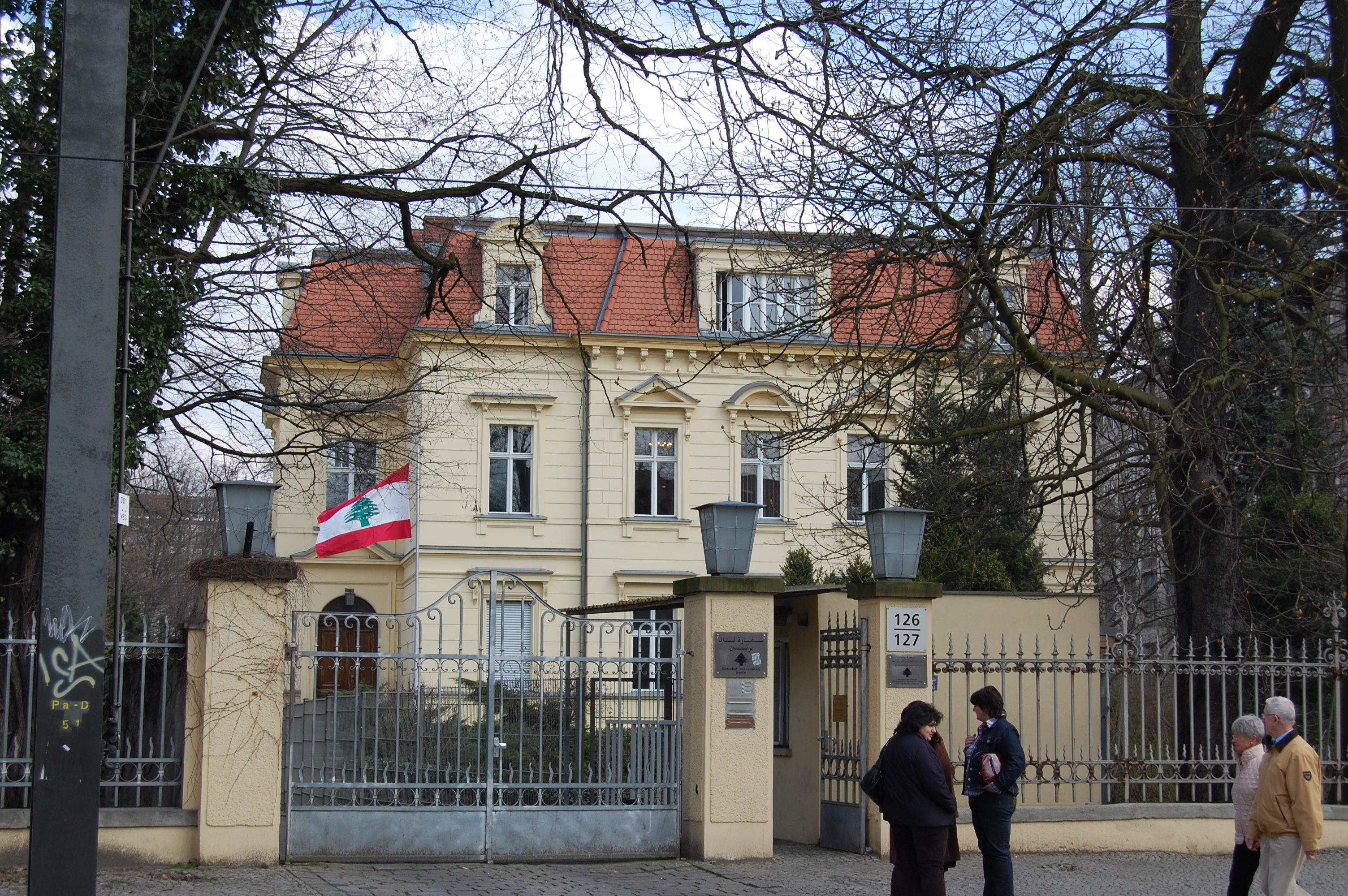 Embassy of Lebanon in Berlin